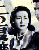 poster of 'Onna Shinjū Ō no Fukushū'